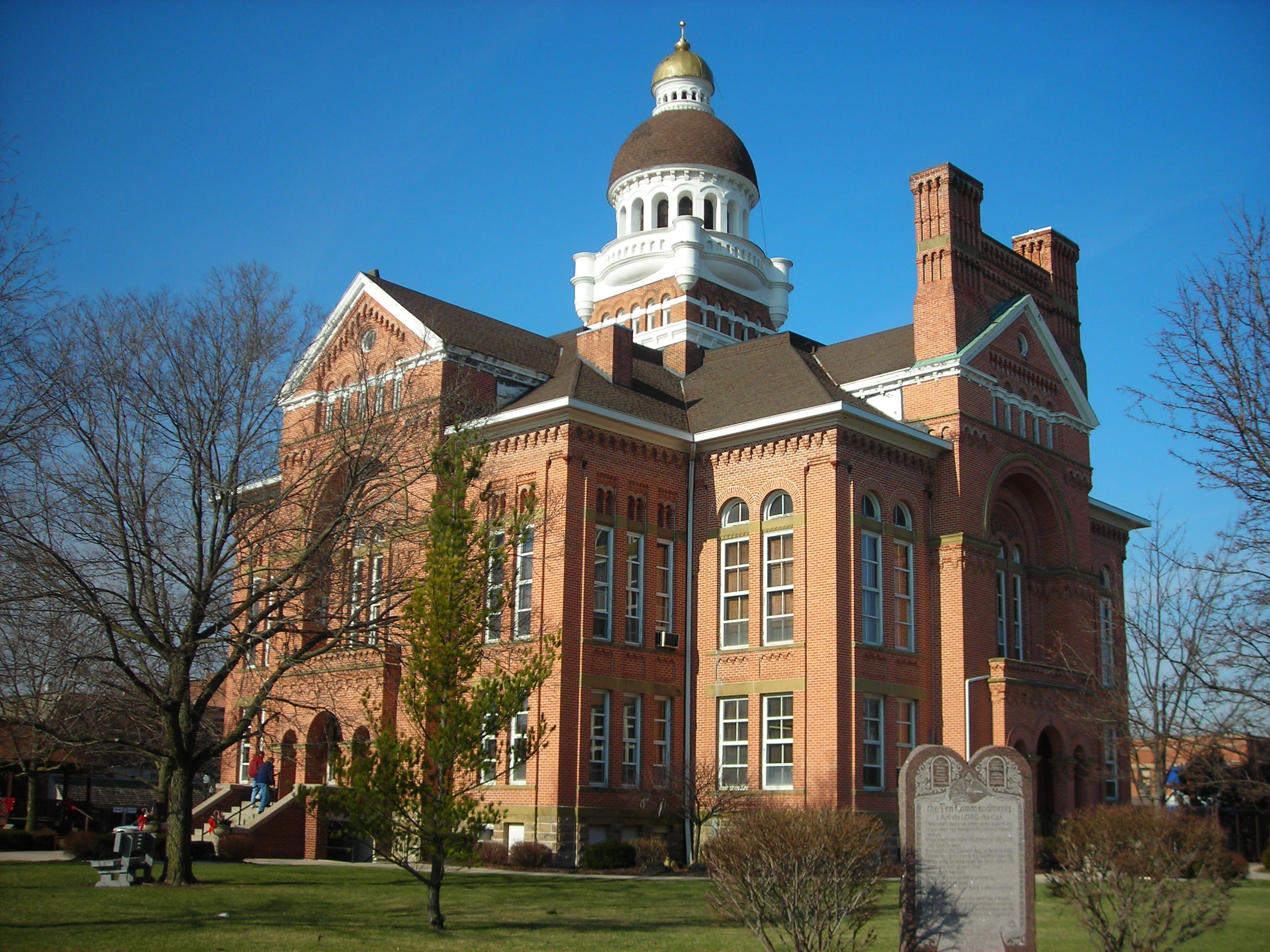 Courthouse of Paulding County, OH. Note the Ten Commandments in the lower right.